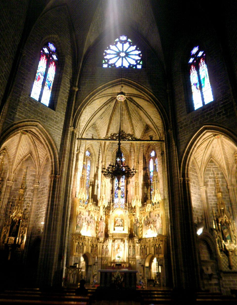 Iglesia de San Cernín o de San Saturnino, Pamplona (España)